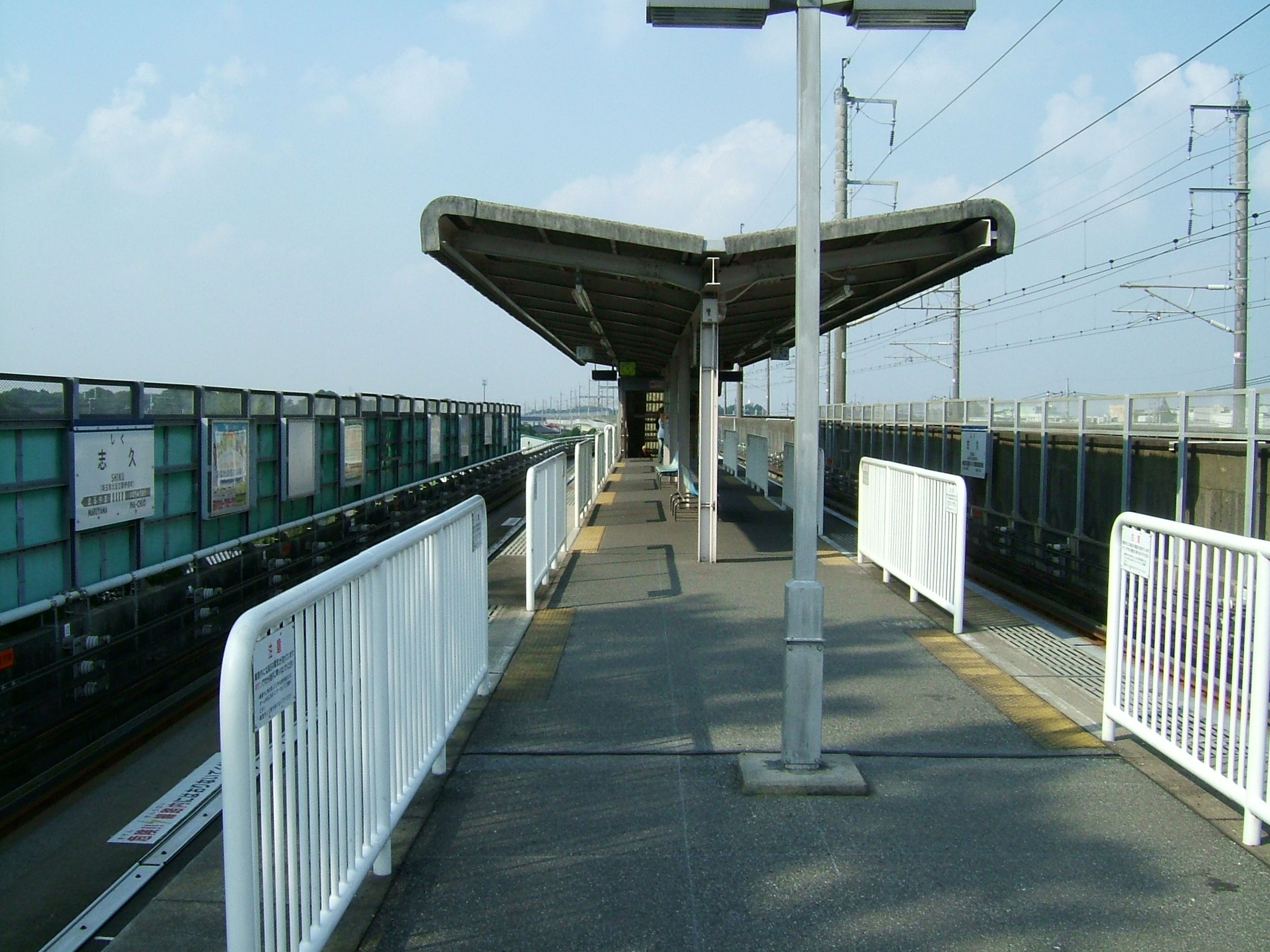 Shiku Station platform(The "New Shuttle")